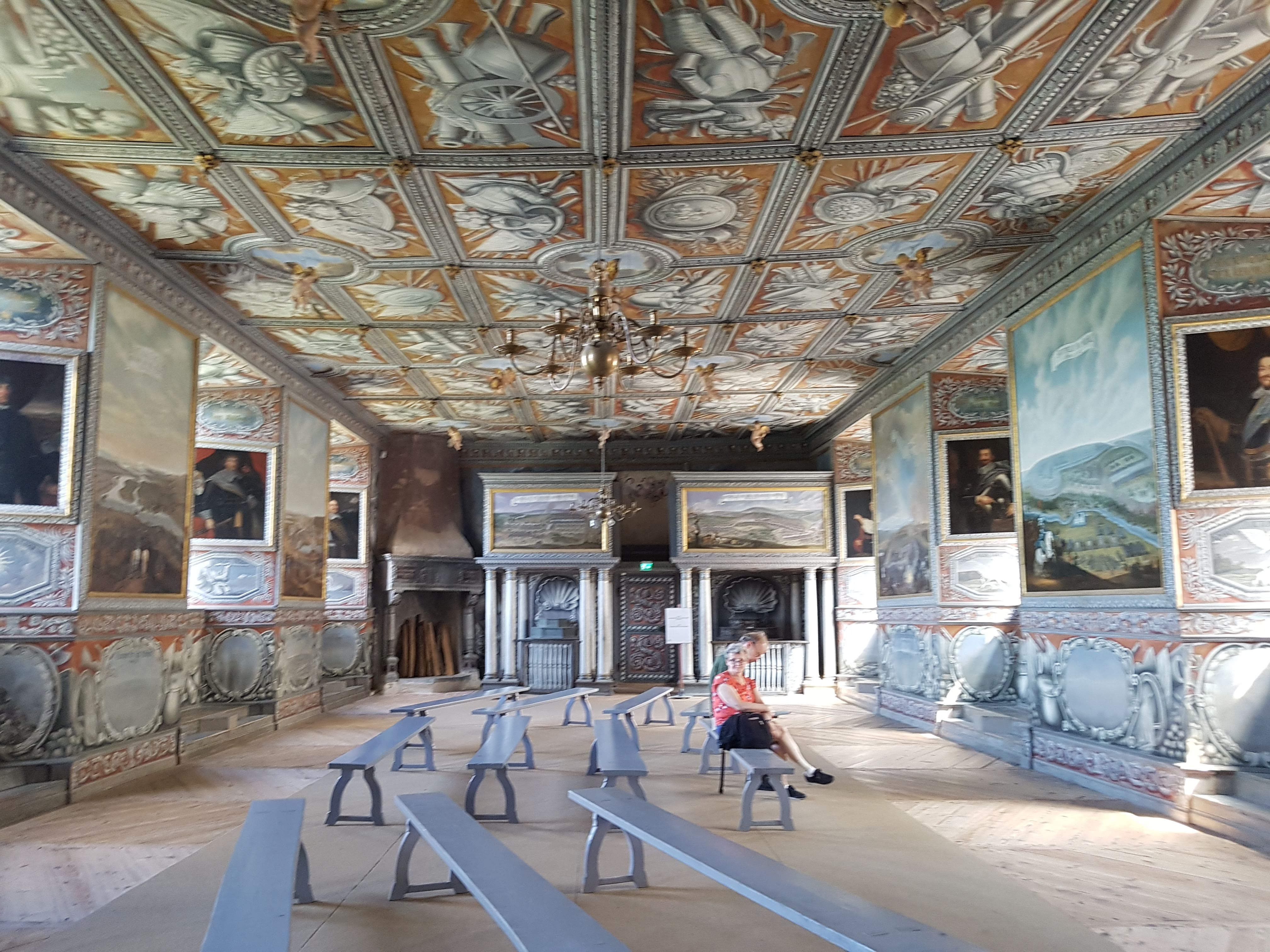 Läckö slott Kungssalen. Here is where the guided tours begin. This was the party and dining place for the Nobles and Kings.